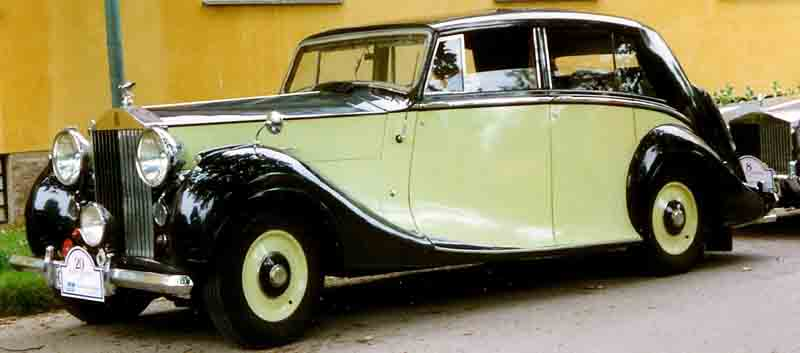 1939 Rolls-Royce Wraith Saloon